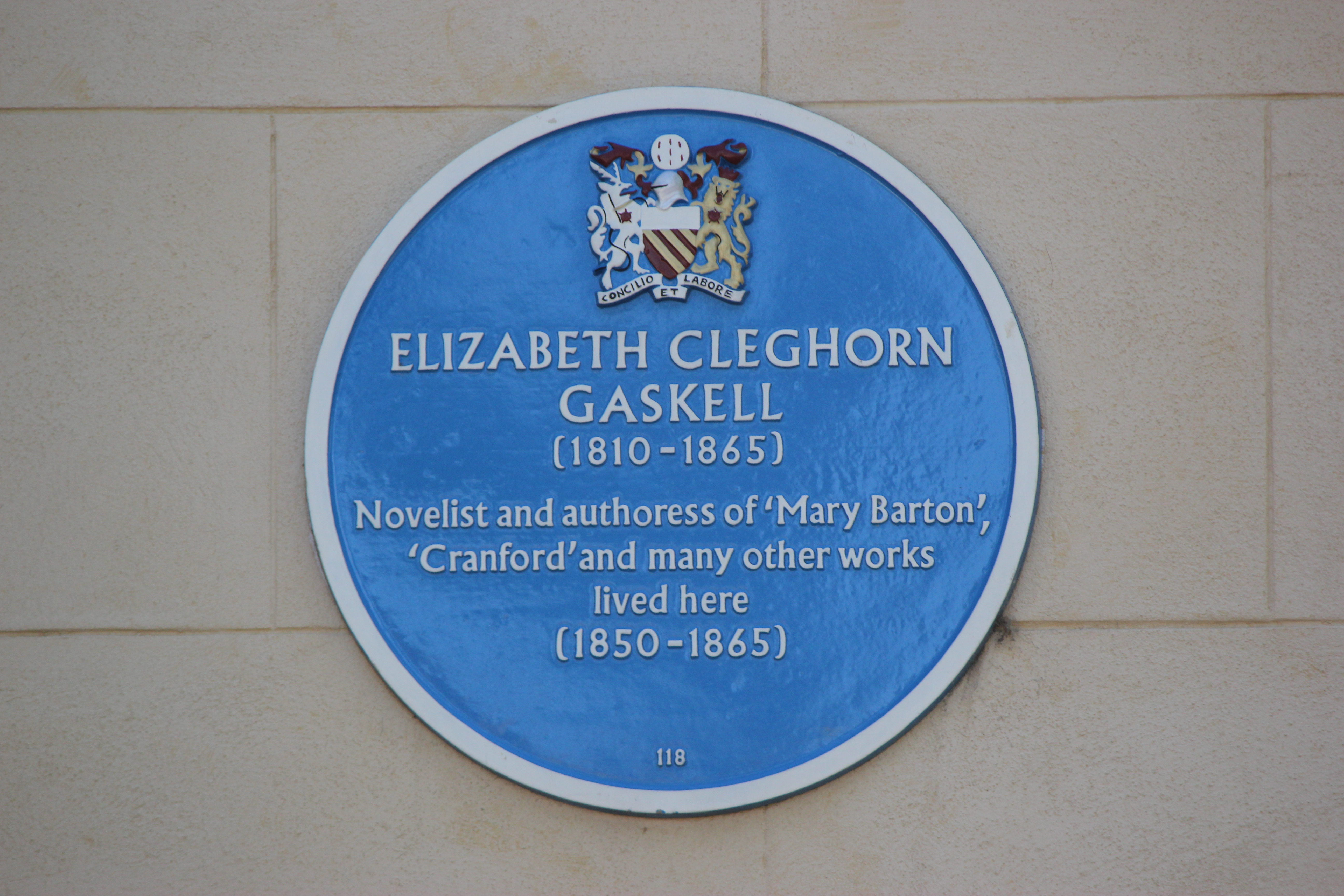 A commemorative plaque in honour of Elizabeth Gaskell, who lived at this address from 1850 until her death in 1865.